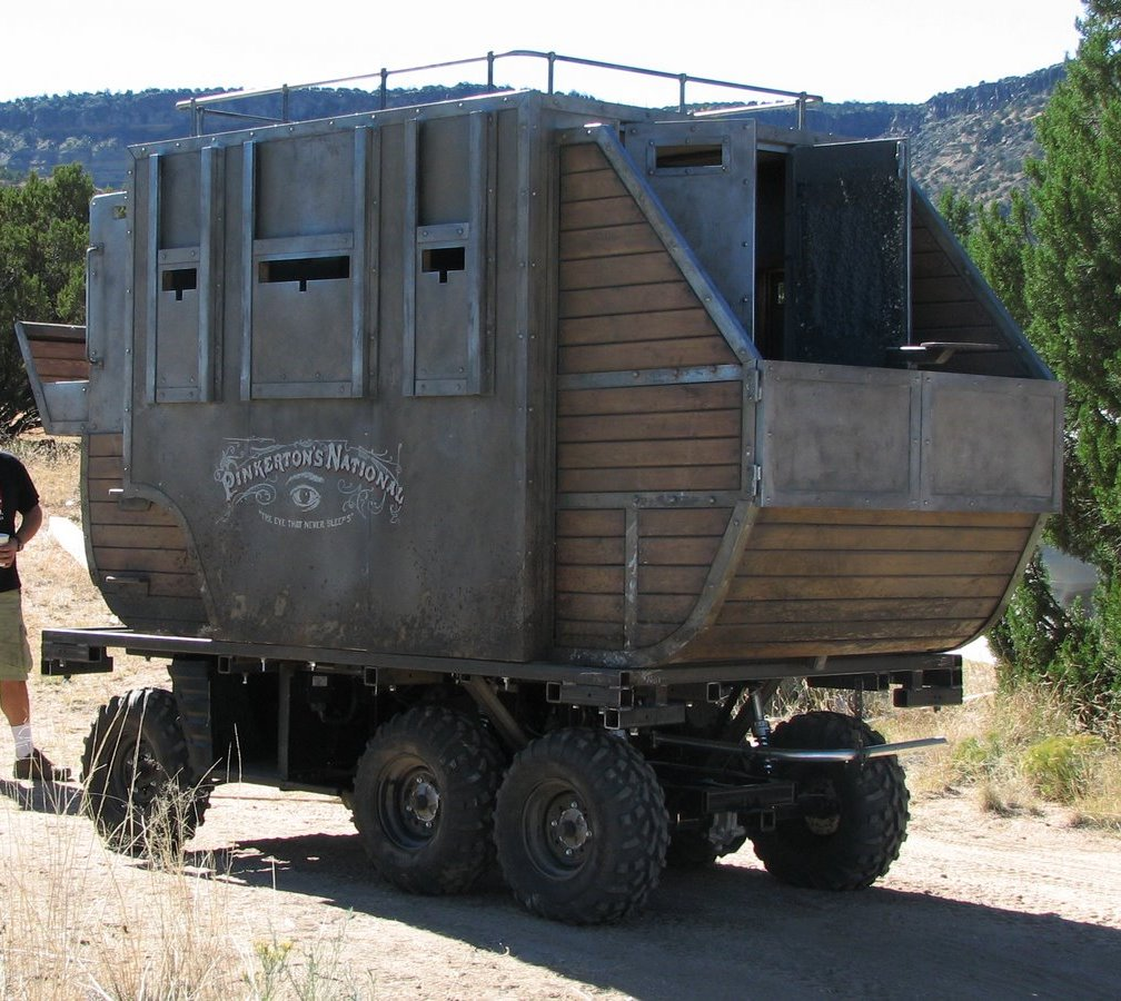 A wagon used during filming for the 2007 remake 3:10 to Yuma